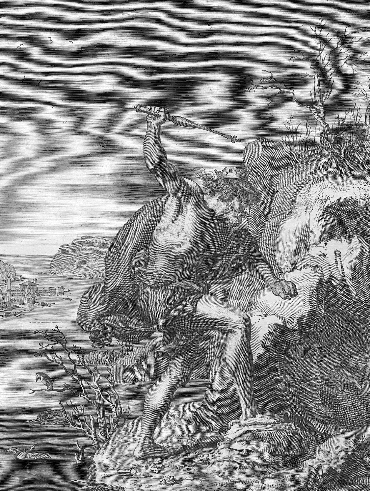 From Neueröffneter Musen-Tempel by Bernard Picart, 1733